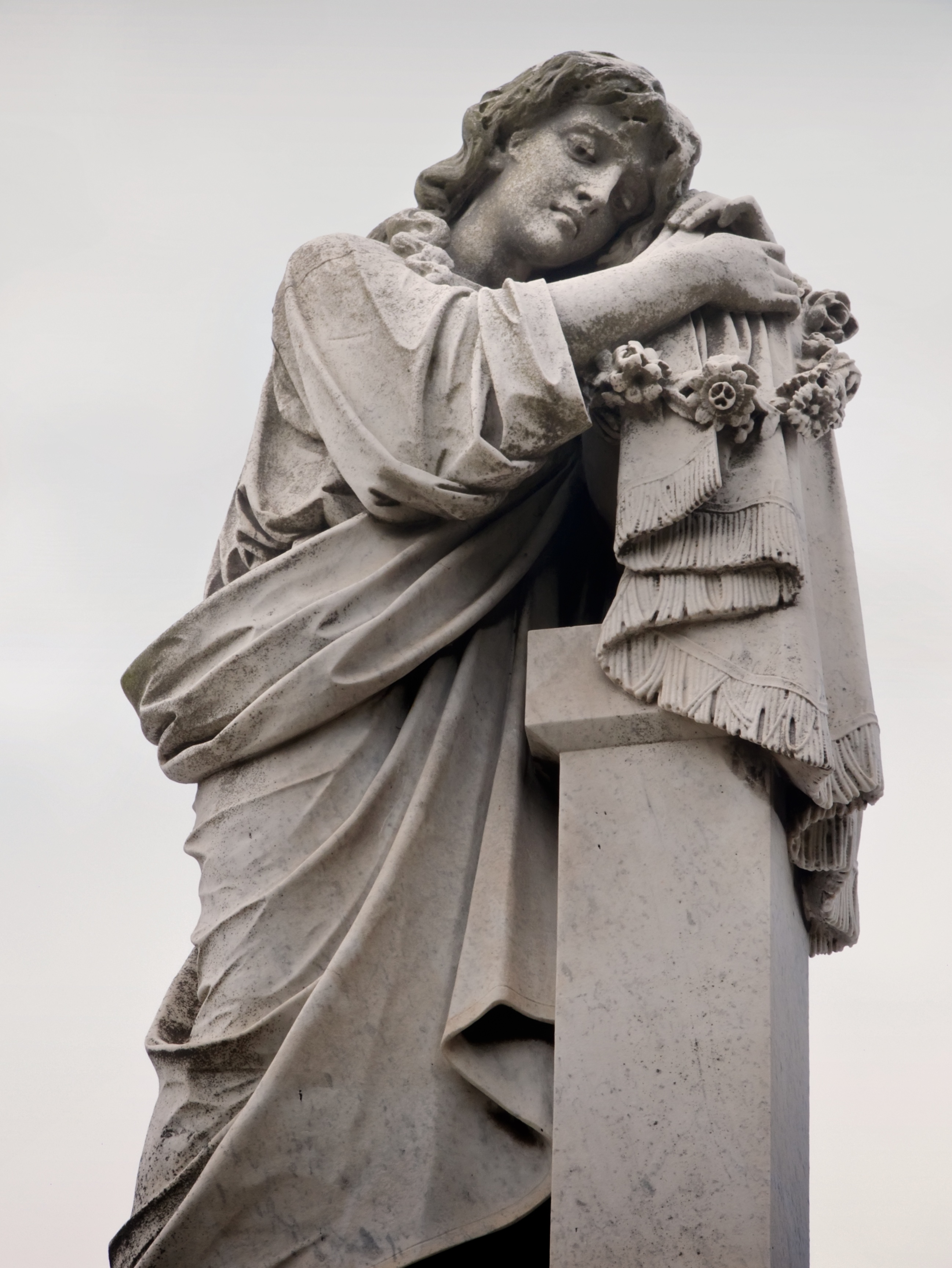 The statue which stands on the Mausoleum of Domingo Ghirardelli, the founder of Ghirardelli Chocolate, in the Mountain View Cemetery (Oakland, California)